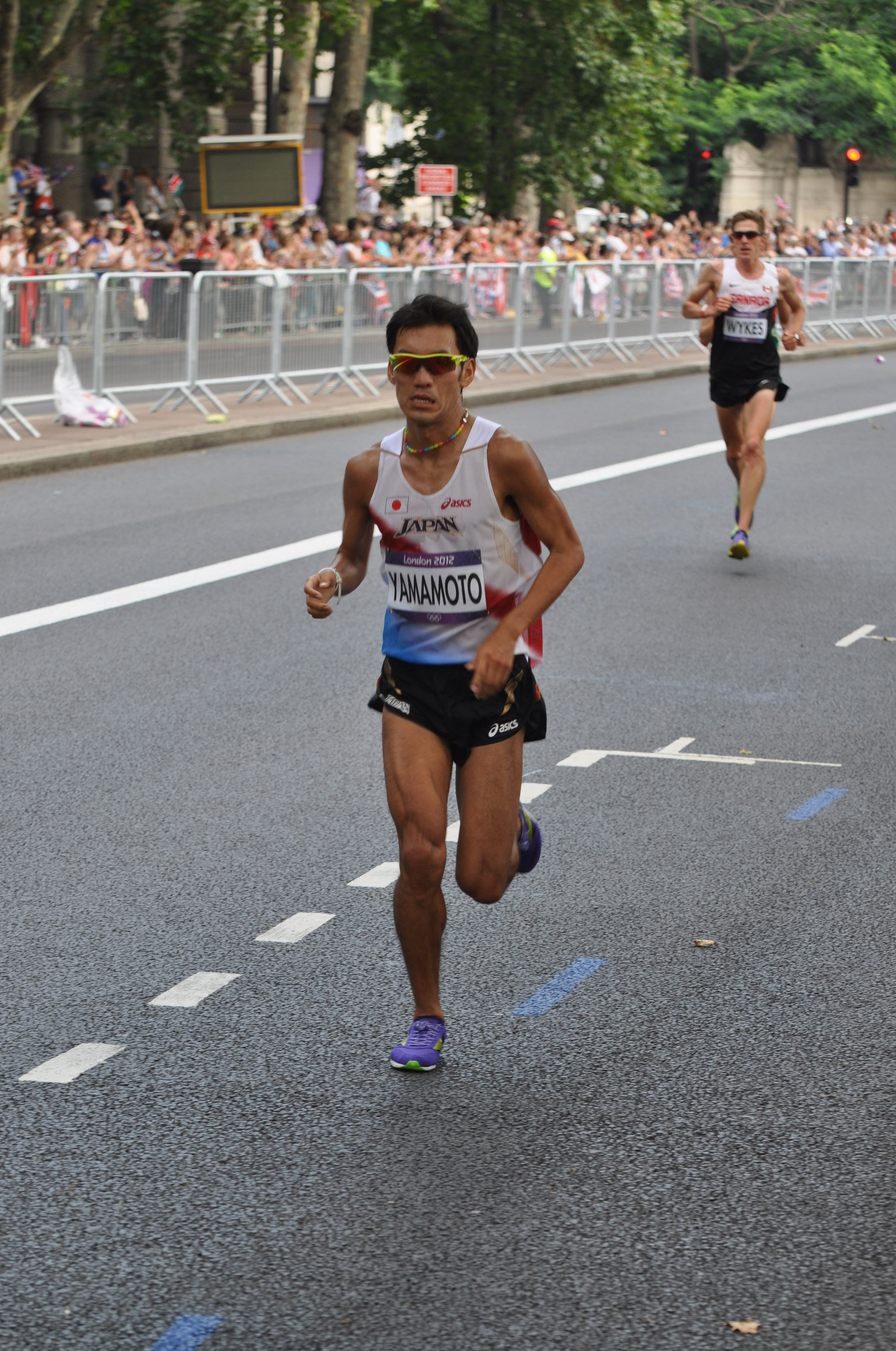 The men's marathon of the 2012 Summer Olympics in London, UK took place on an Olympic marathon street course on Sunday 12th August 2012 at 11:00. This was the final day of the 30th Olympic Games. The London 2012 marathon course is the standard Olympic distance of 26 miles 385 yards and consists of one short lap of approx 2.2 miles followed by three longer laps of 8 miles. The course began on The Mall and travelled past several of the most famous London landmarks. The start/finish line was near the Victoria Memorial. These photographs were taken at the Victoria Embankment. This featured several times on the looped course. The approximate location from the photographs is shown in the Google StreetView Link below. Stephen Kiprotich won in 2 hours, 8 minutes, 1 second as he pulled away from the Kenyan duo of Abel Kirui and Wilson Kiprotich Kipsang. These photographs are unofficial photographs. They are not endorsed by London 2012. There are not commercially available. They are available for use under a Creative Commons License. Please link back to the photograph on my Flickr account if you use the image.